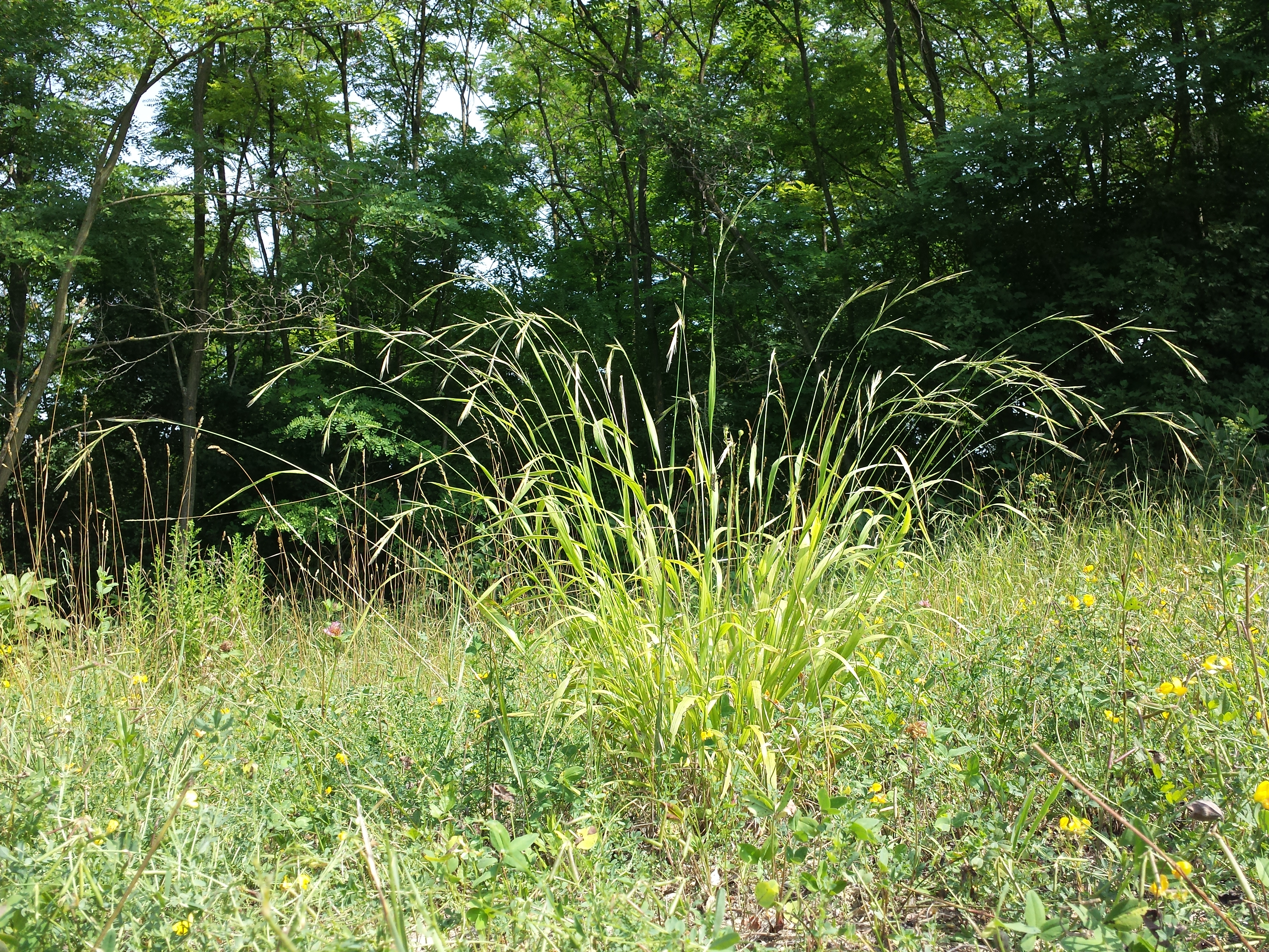 Habitus Taxonym: Brachypodium sylvaticum (subsp. sylvaticum) ss Fischer et al. EfÖLS 2008 ISBN 978-3-85474-187-9 Location: southeast of Eitzersthal, district Hollabrunn, Lower Austria - ca. 240 m a.s.l. Habitat: fallow land